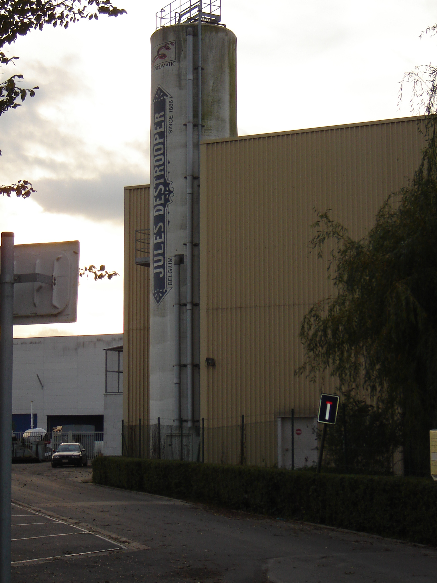 Biscuit factory Jules Destrooper (since 1886) in Lo, Lo-Reninge, West-Flanders, Belgium